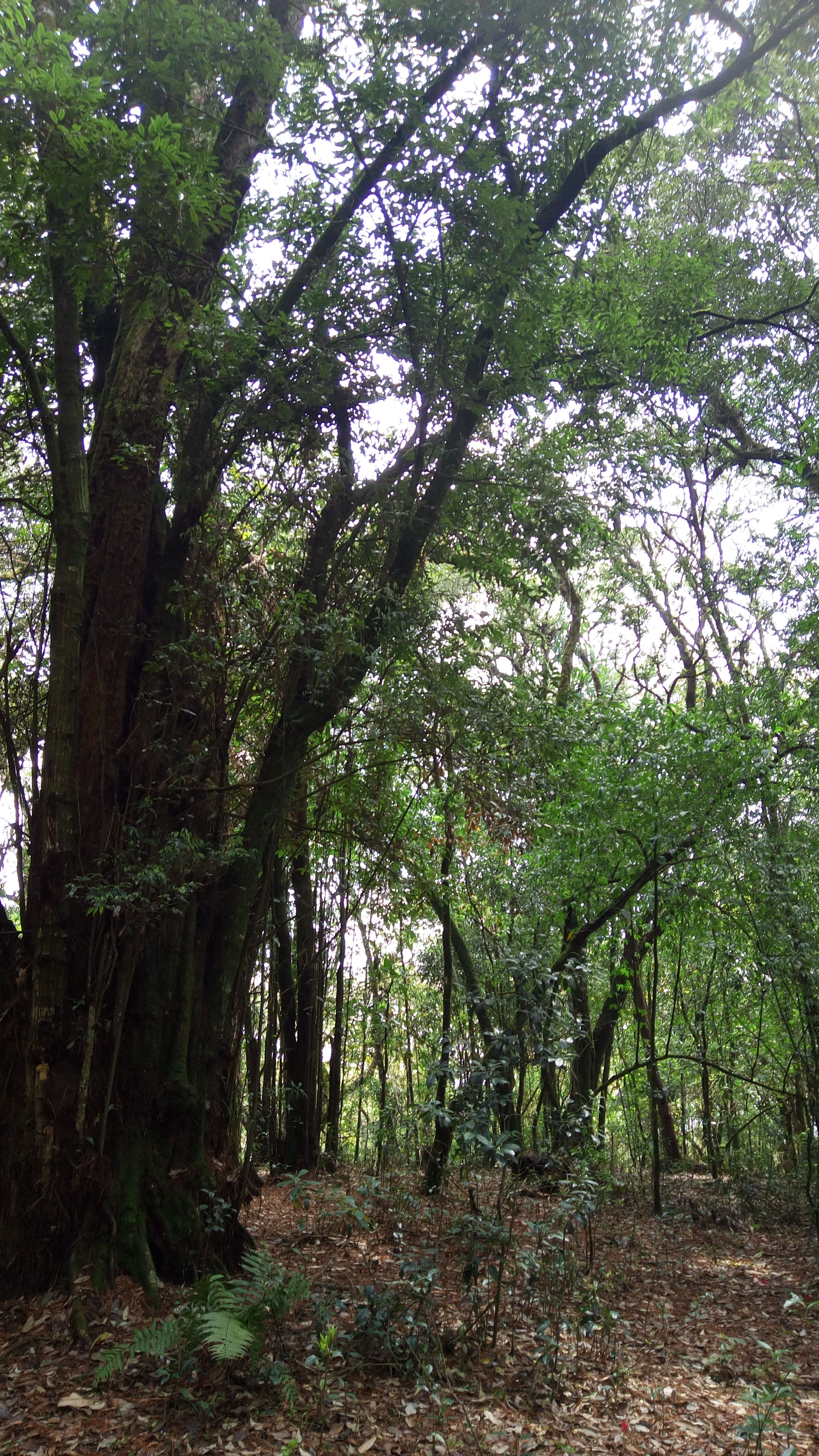 These pictures are from Mawphlang Sacred Groves, Meghalaya, India. These groves are acres of virgin forests. Because of cultural beliefs, nothing from this forest is to be brought outside it. It is commonly believed by the tribe to whom that forest belongs that if anything is taken out of the forest, then it will bring environmental problems in the society. Hence, these have been protected by the tribe.